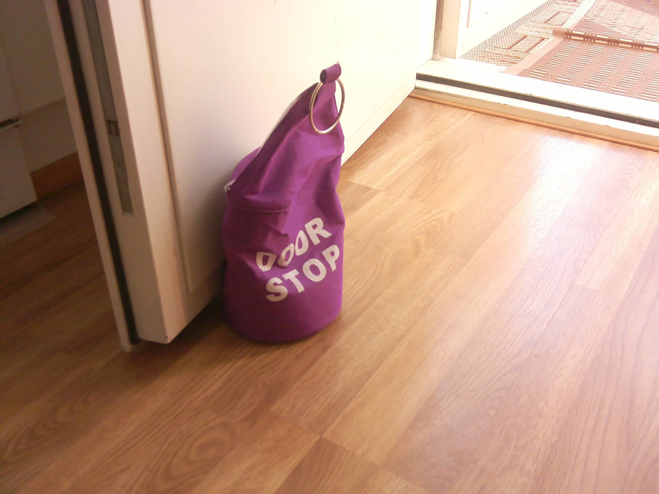 Pink Door Stop